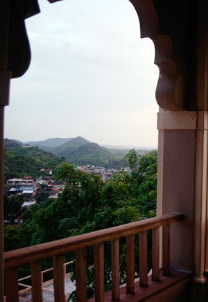 Cross Section of one of Sihor Hill Ranges, from Sukhnath